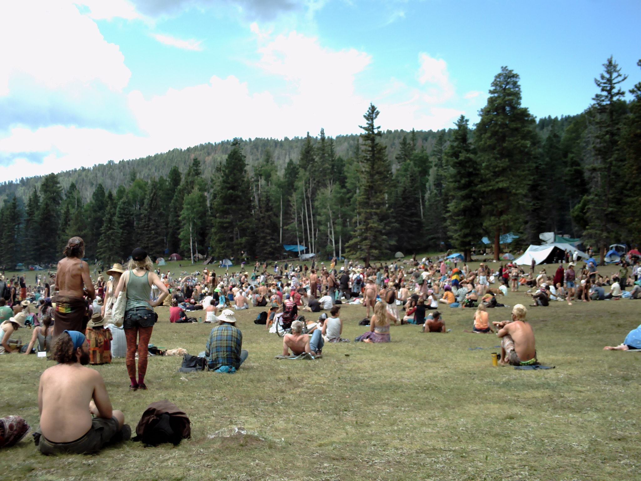 A view of 2009 Rainbow Gathering participants at Main Circle, a central location for numerous activities during the event.